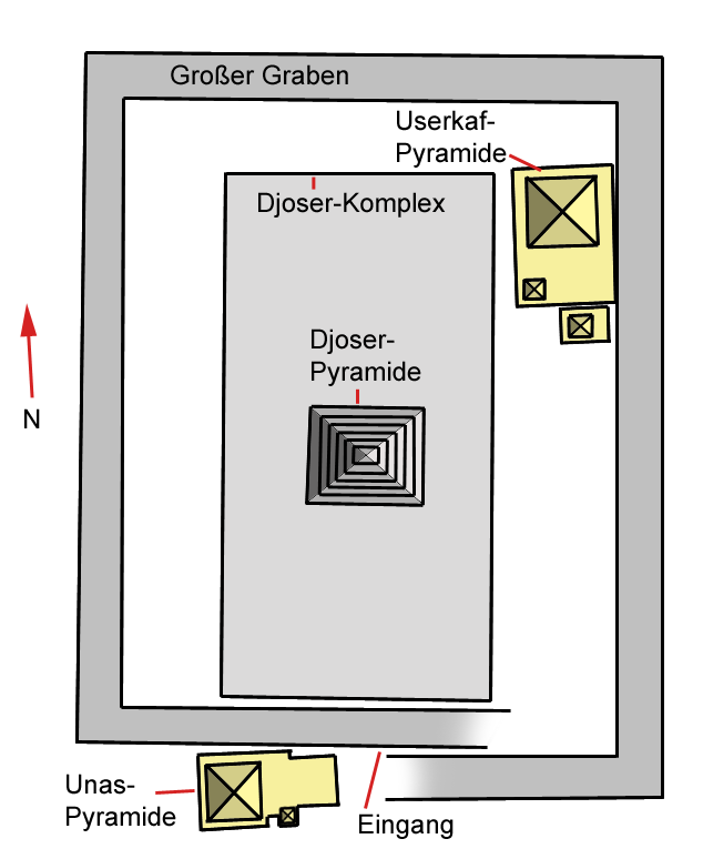 Djoser pyramid complex with large outer trench and pyramids of Userkaf and Unas